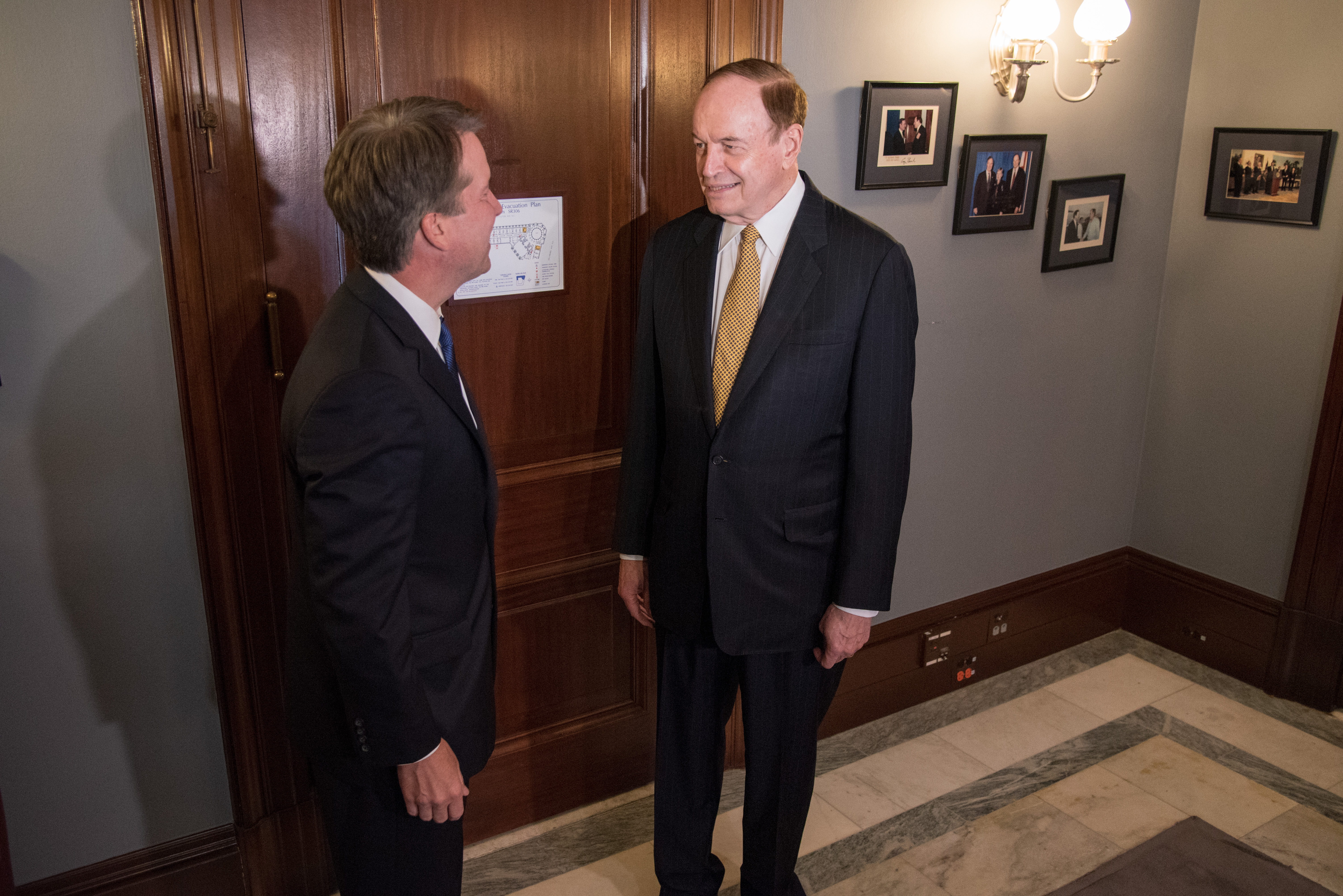 Supreme Court Nominee Judge Brett Kavanaugh and Senator Richard Shelby